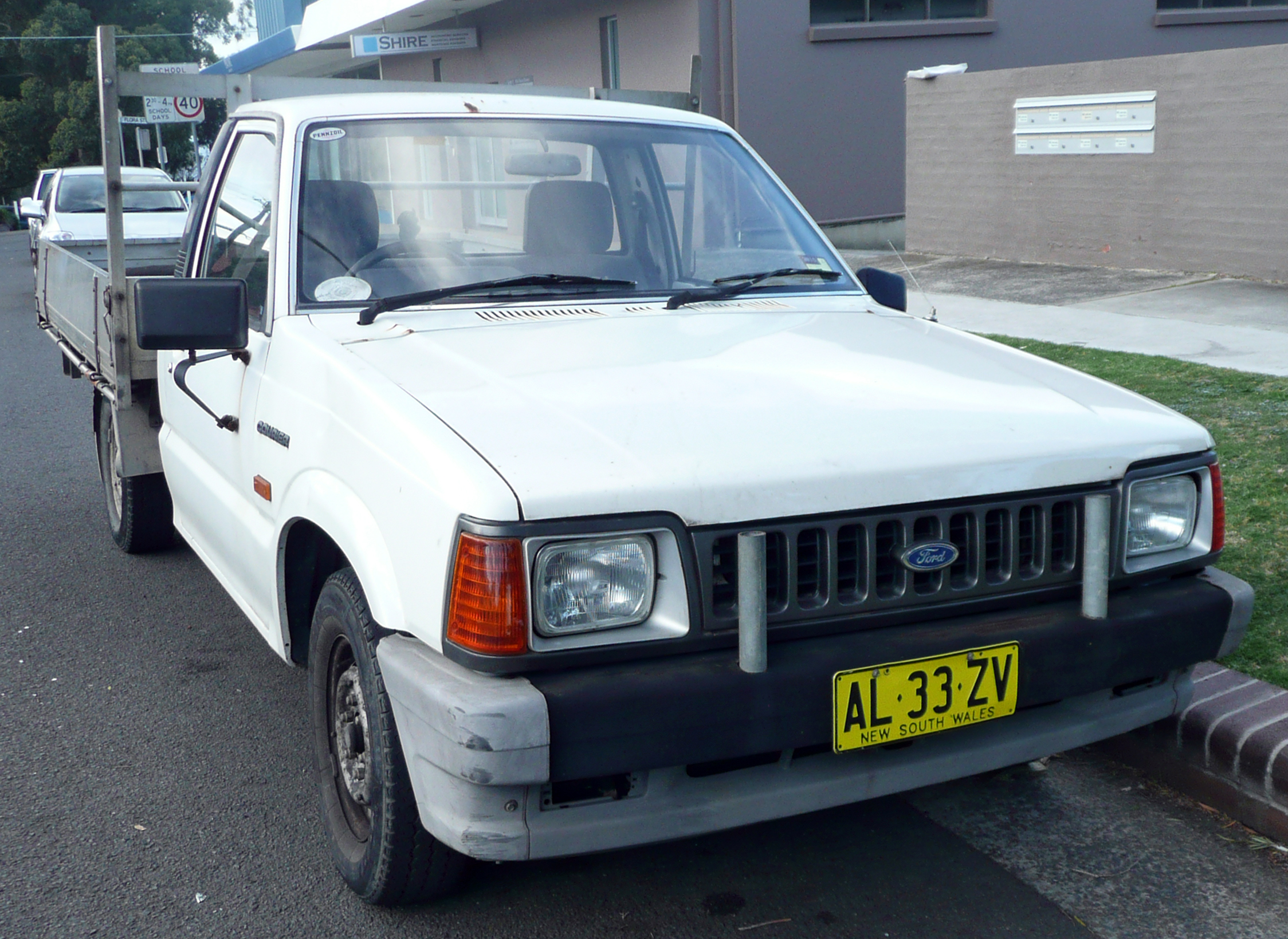 1994 Ford Courier (PC) cab chassis. Photographed in Sutherland, New South Wales, Australia.